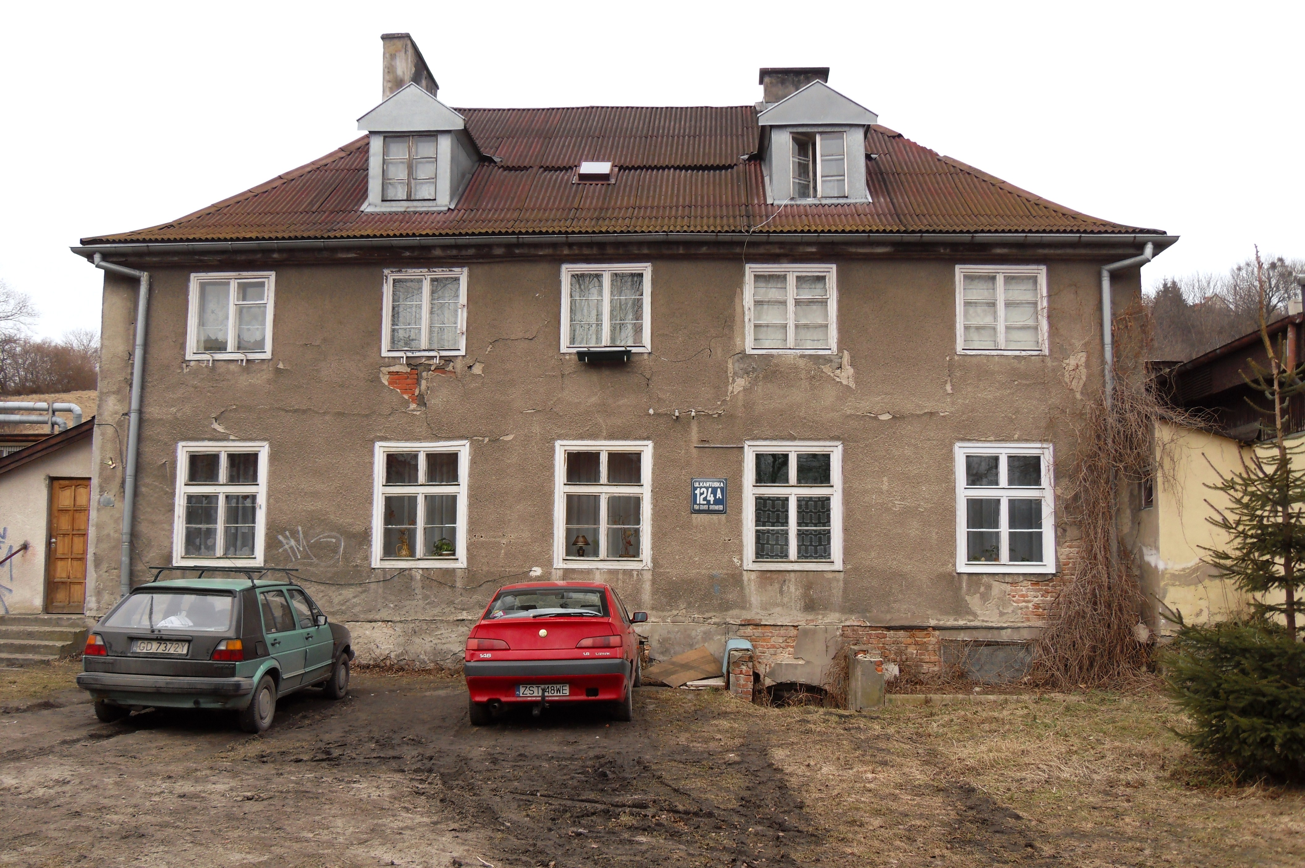 124a Kartuska Street in Gdańsk - the back, 18th Century.